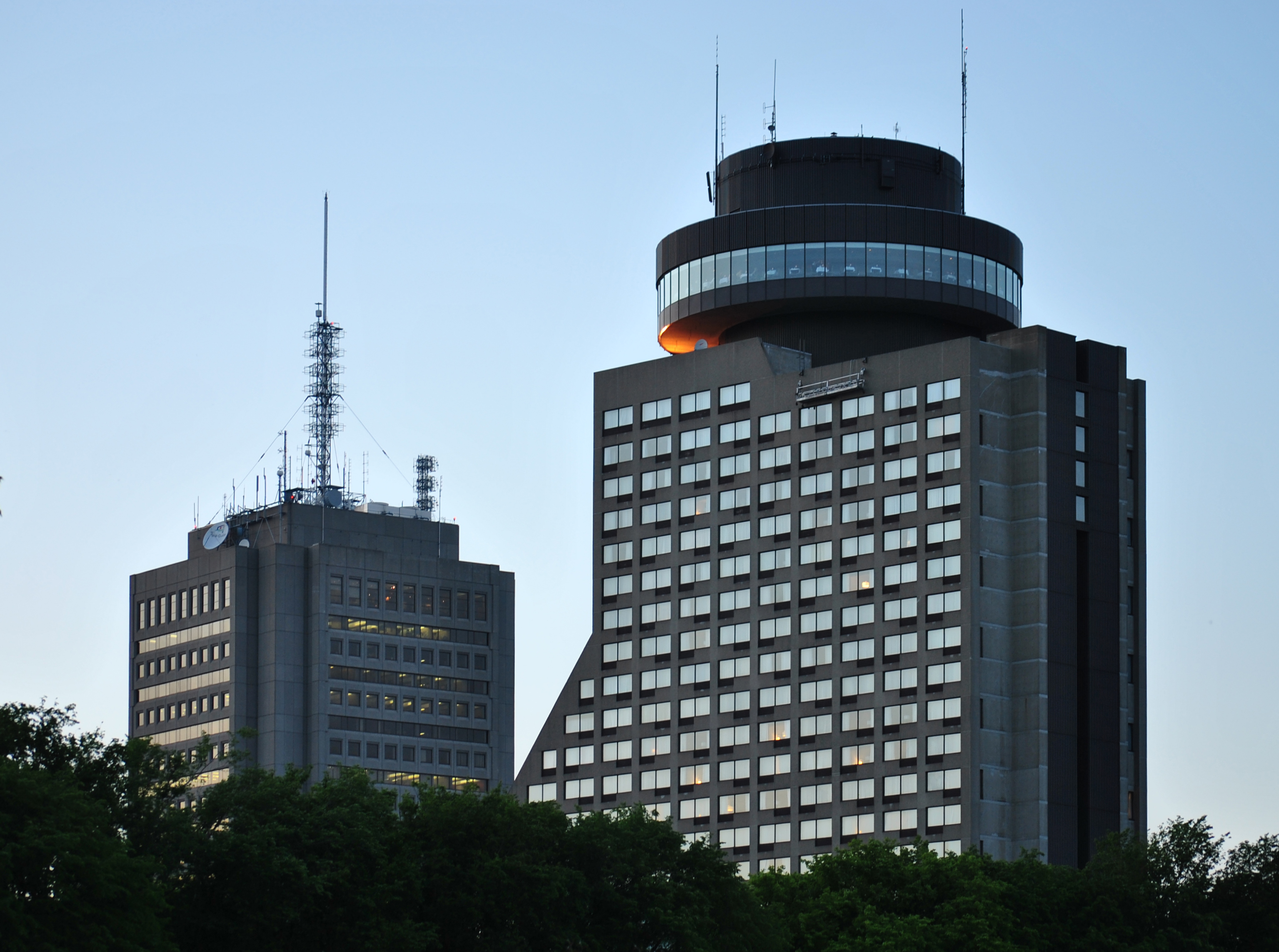 Two buildings of the Quebec City (Canada) skyline: the G complex and the Hôtel Loews Le Concorde Québec.